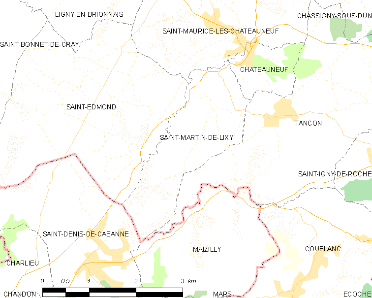 Map of French municipality